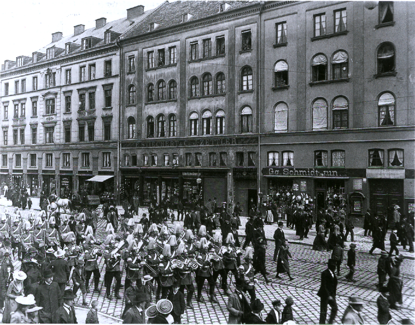 Parade of the 2. squadron of the 1. Schwere-Reiter-Regiment (heavy cavalry regiment) on the Zweibrückenstraße street in munich.